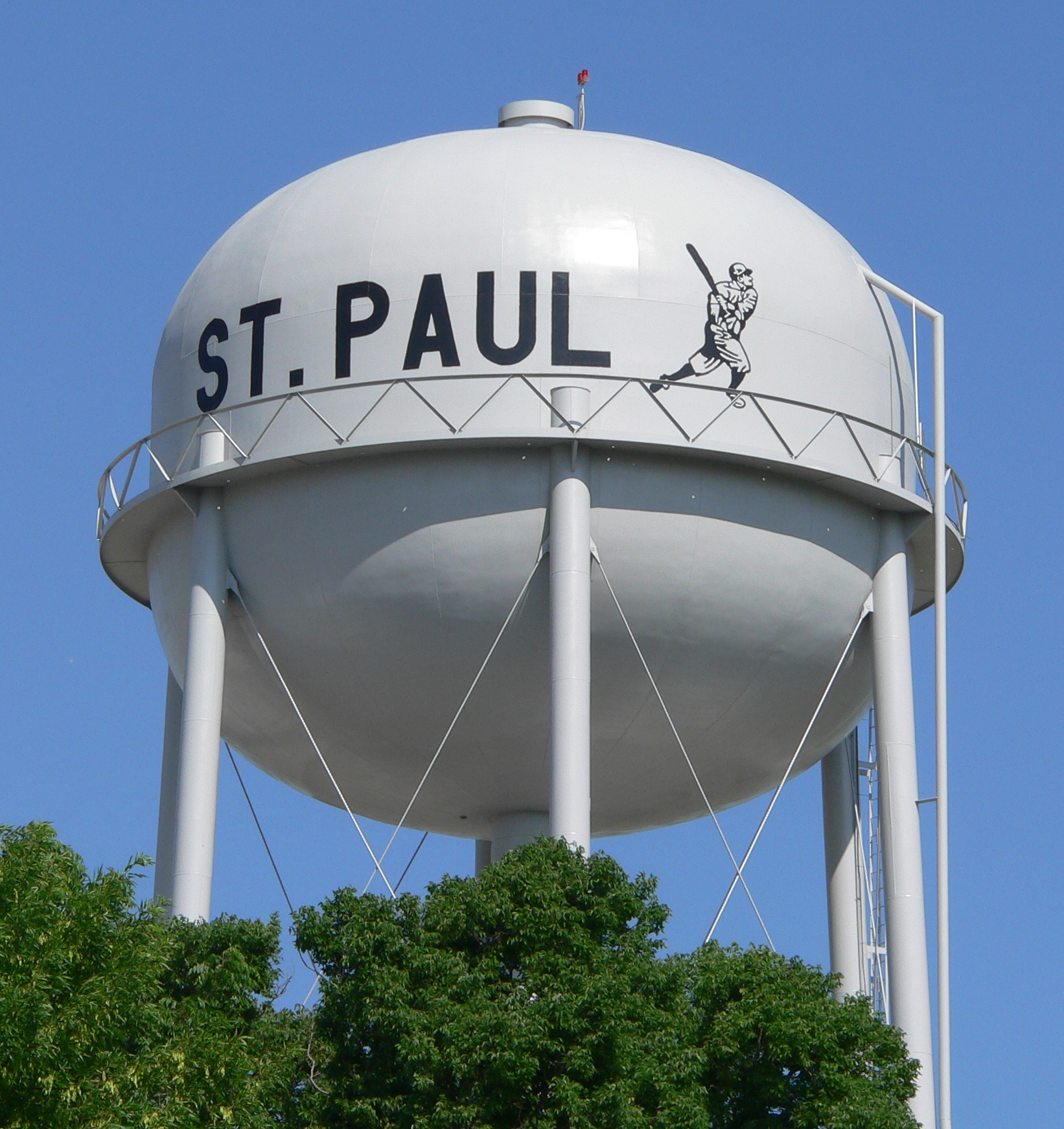 Water tower in St. Paul, Nebraska; seen from the southeast.